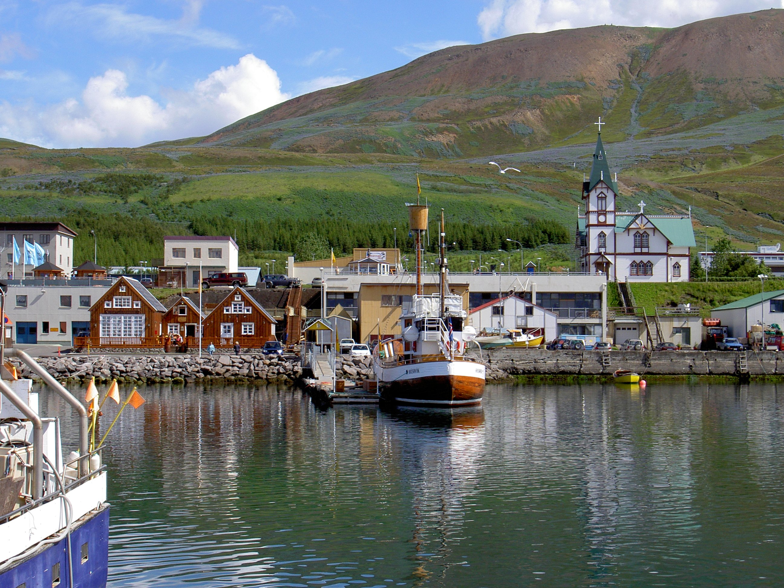 Húsavík city, from the sea